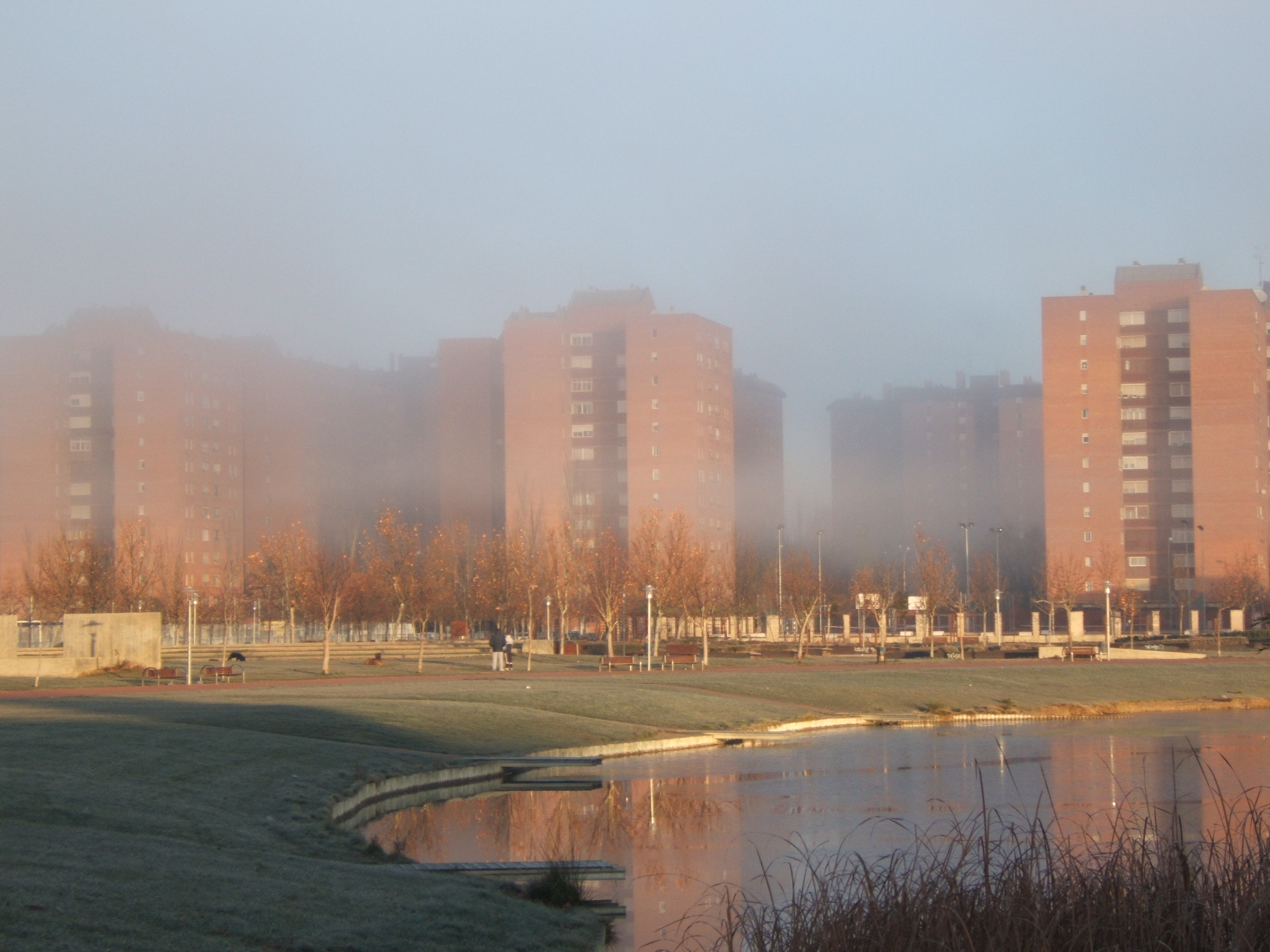 Laguna de Duero Lake